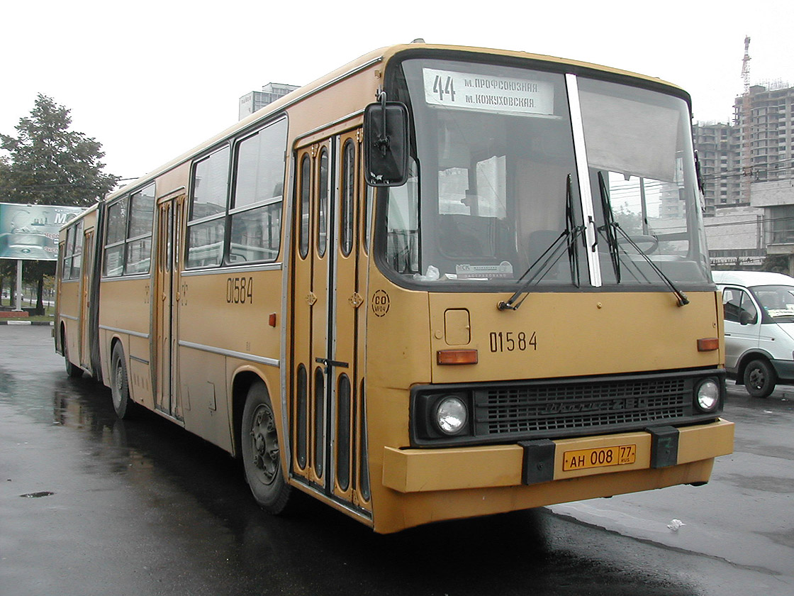 Ikarus 280 in Moscow